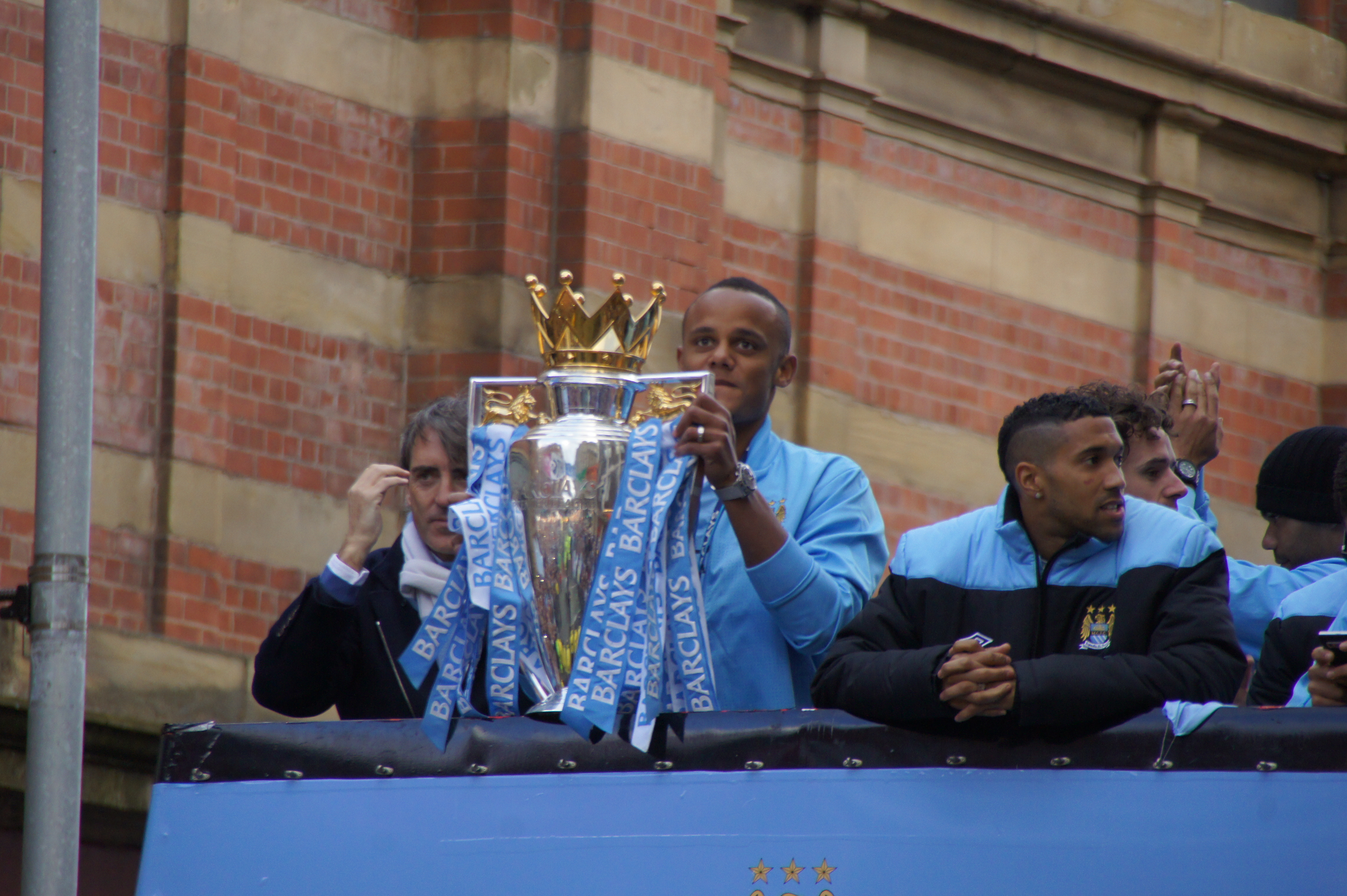 Manchester City champions victory parade 2012